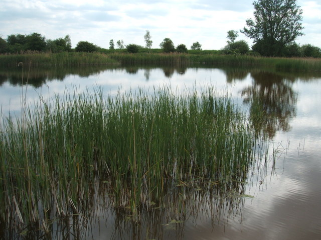 Wicken Fen: Borrow Pit A deep pond created when clay was taken to repair the banks of Burwell Lode. Rich in aquatic life. Part of The National Trust's Wicken Fen property.